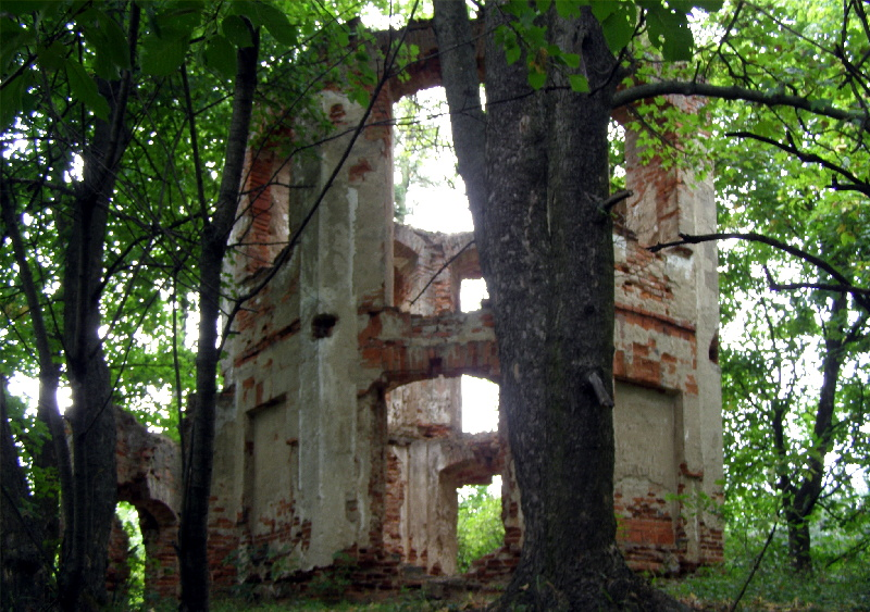 Lukov village. Saint Vitus hill. Ruins of a villa (Lustschloss, maison de plaisance)